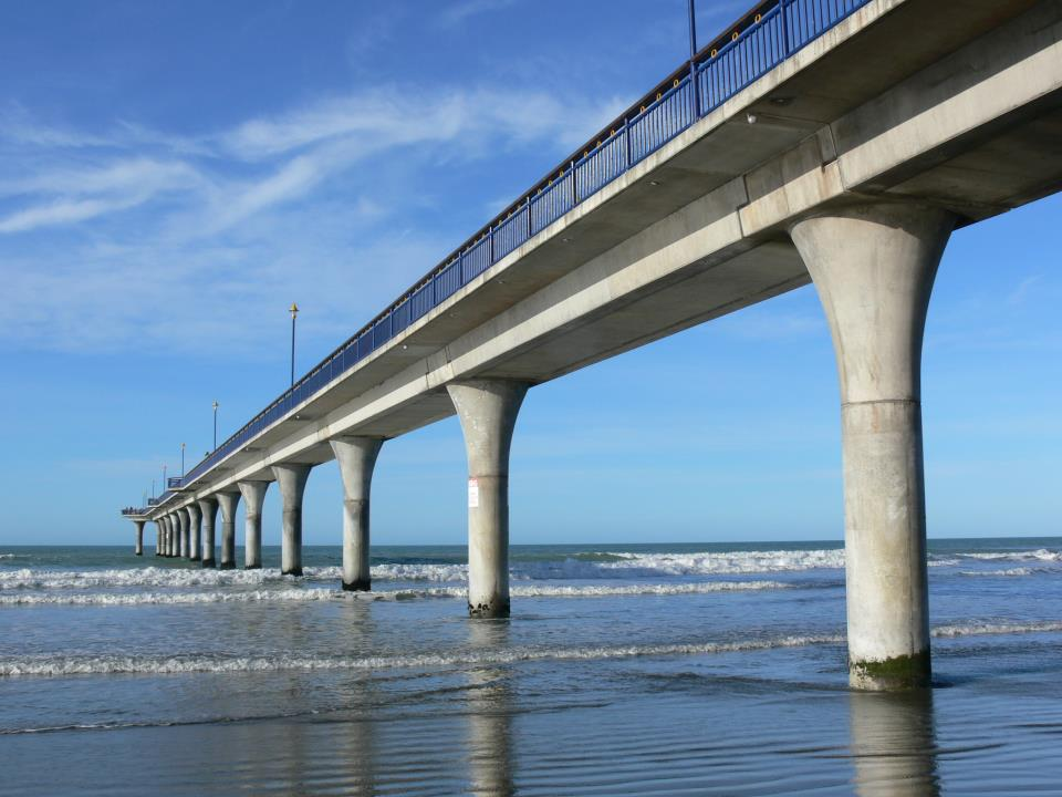 New Brighton Pier, Christchurch